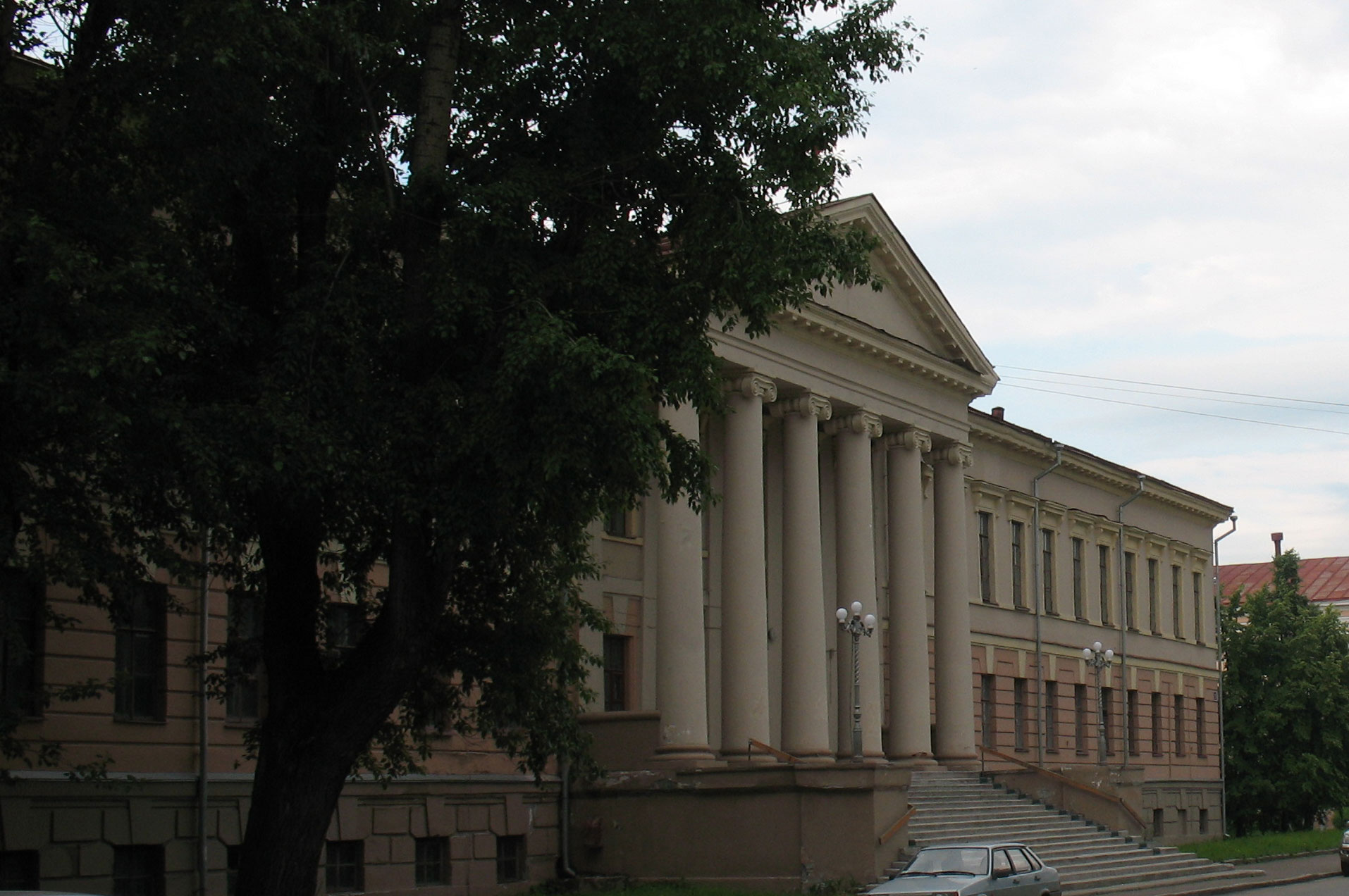 Siberian Physical-Technical Institute